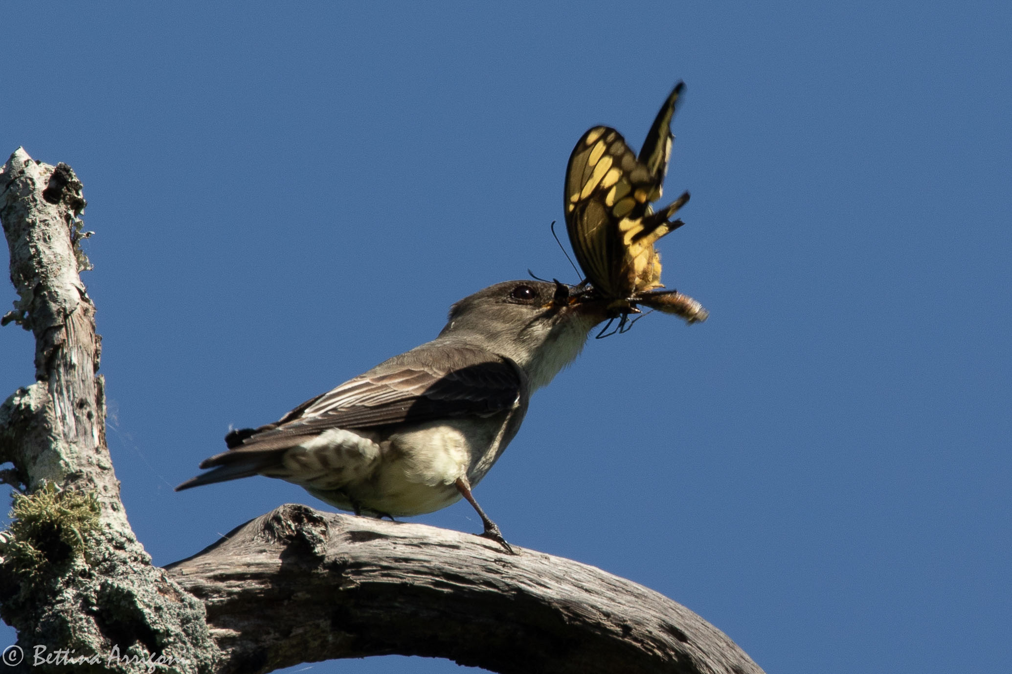 Olive-sided Flycatcher | Sabine Woods | High Island | TX|2018-04-26|09-20-42.jpg